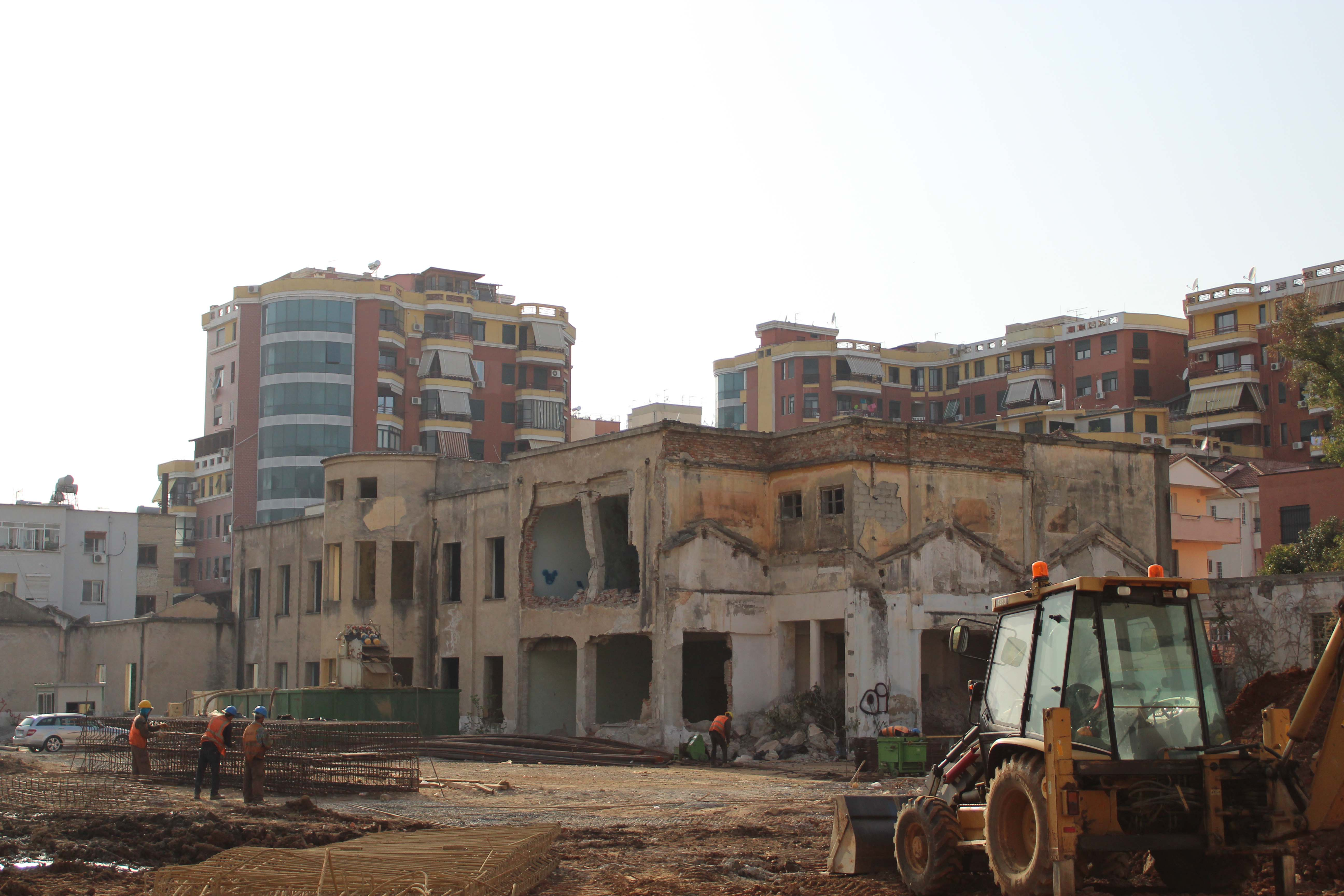 The Nature Science Museum, had different functions during the years.During the regime of King Zogu it used to be a Dormitory, Dormitory ‘Naim Frasheri’. During the fascist Italian regime it served as an aeroplane’s motors repairing unit. In 948 the building worked as ‘The Nature Science Museum’ related to the Science Institute (state property). In 2009 four private owners of the site where the building stood, appeared and through a court’s decision , the building became their property. There were several polemics regarding the fact if the Museum should move or not from its original location, there were some students protest also but neither of those worked .The Museum was demolished and transformed into a construction site for a high-rise complex of businesses and housing.